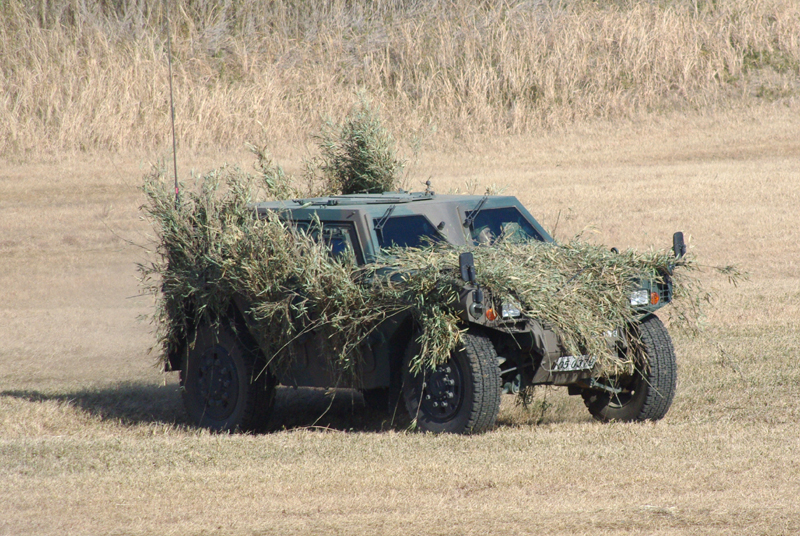 JGSDF Light Armored vehicle(camouflage).Taken by Los688,in Narashino,Japan,at 08-Jan-2012,JGSDF 1st Airborne Brigade 2012 first drop manuver.PD-self 軽装甲機動車（カモフラージュ状態）、陸上自衛隊第一空挺団 2012年01月08日、習志野演習場で撮影。